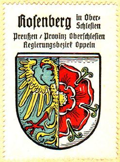 COA of Rosenberg (currently Olesno) according to German post stamp ca.1928. This image is in the public domain according to Article 4, case 2 of the Polish Copyright Law Act of February 4, 1994 (Dz. U. z 2018 r. poz. 1191 with later changes) "normative acts and drafts thereof as well as official documents, materials, signs and symbols are not subject to copyrights". Hence it is assumed that this image has been released into public domain. However in some instances the use of this image in Poland might be regulated by other laws.